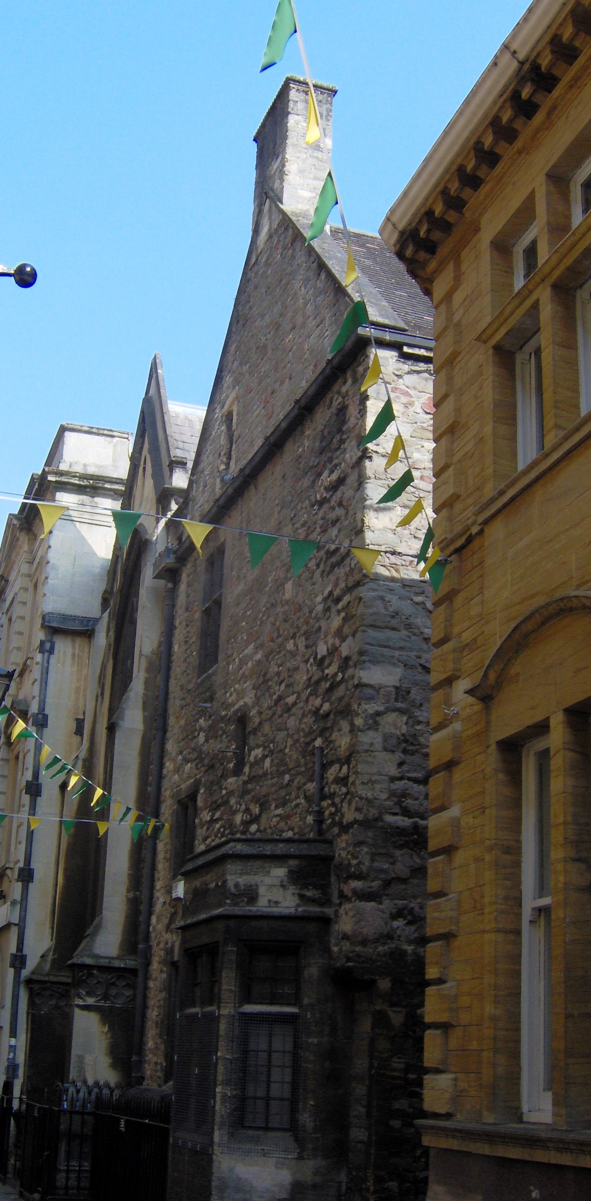 All Saints, Corn St Bristol. Taken by Rod Ward 20th April 2007